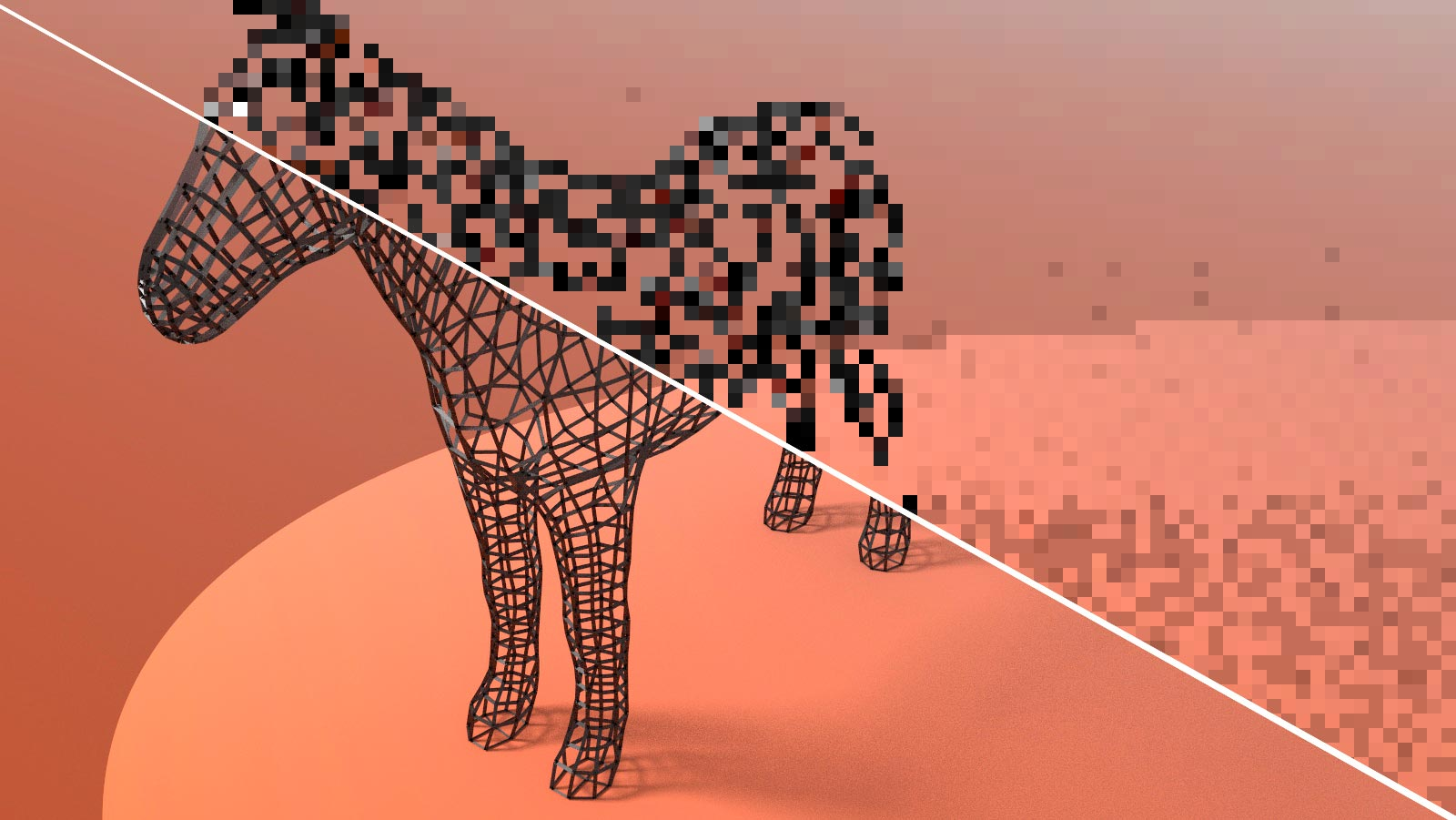 Anti-aliasing is a process to convert pixel-noise in an image so that it looks more natural. In this example I rendered a wireframe horse in a CGI software with a low anti-aliasing and a high anti-aliasing (left) mode. The rendering time increases with anti-aliasing quality, in this case from less than a second to half a minute. The soft shadows are a specifically hard to render topic because the anti-aliasing algorithms have to find the soft edges and treat them as soft.